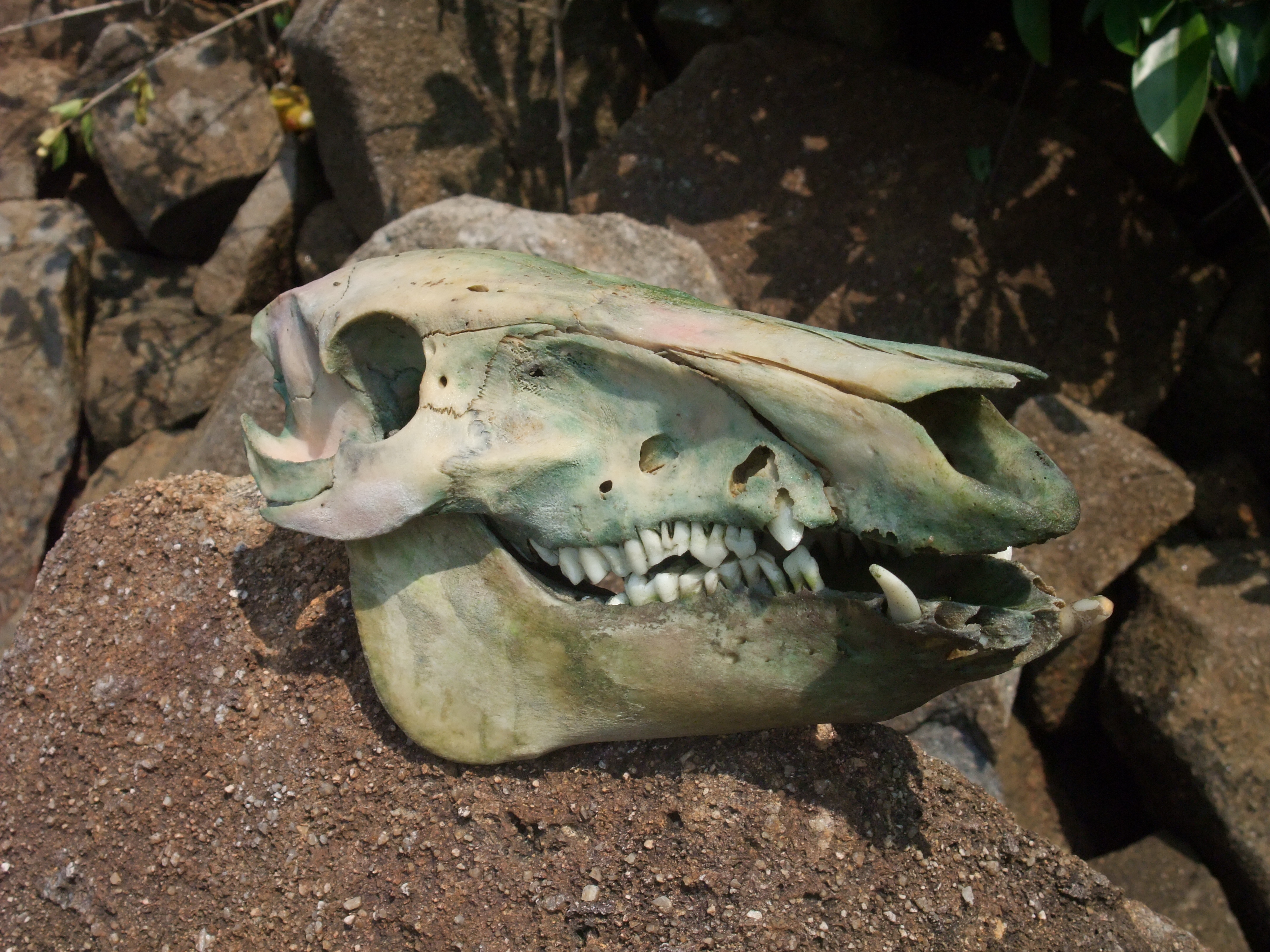 Photo of a wild boar skull